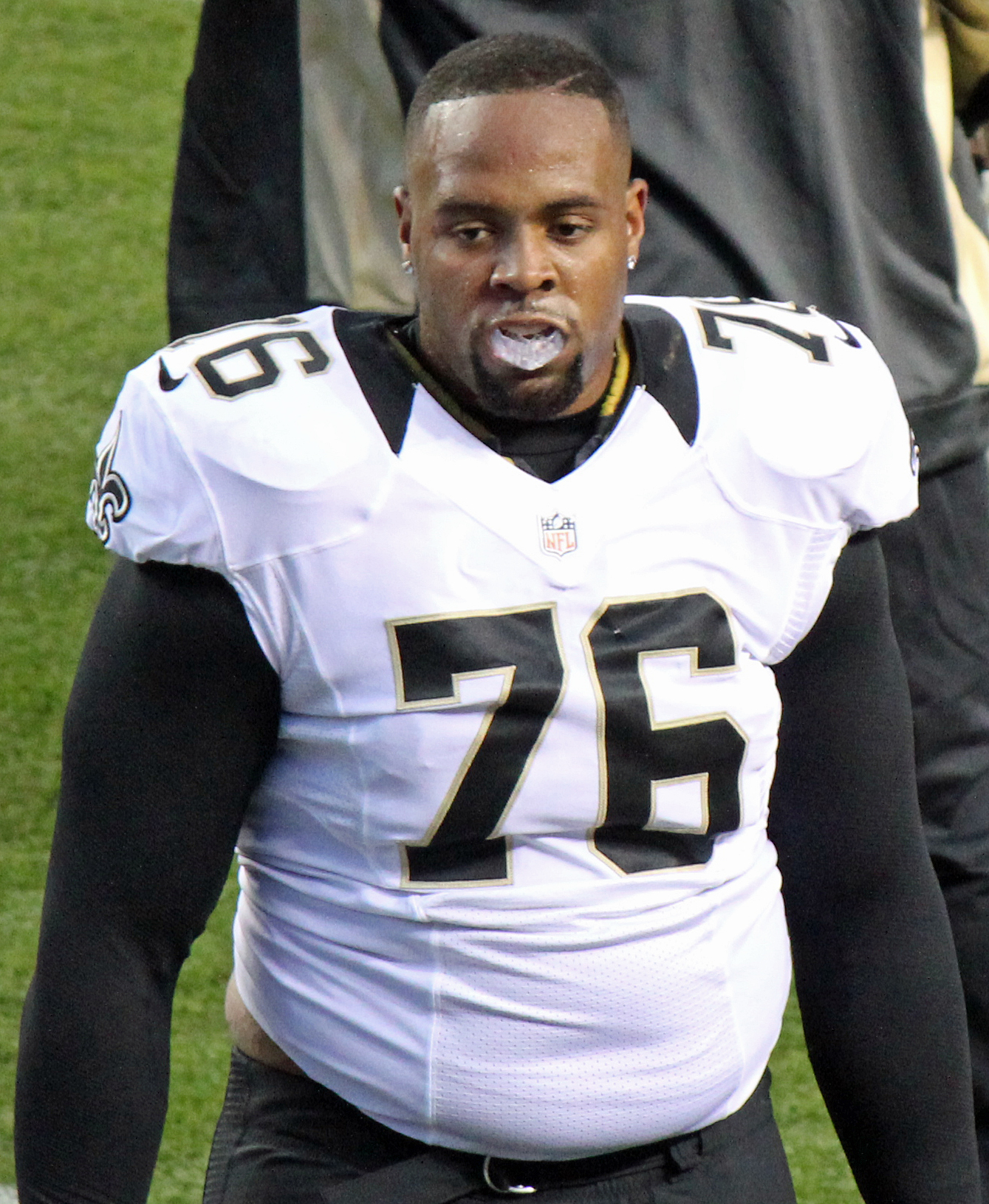 Akiem Hicks, a player on the National Football League.